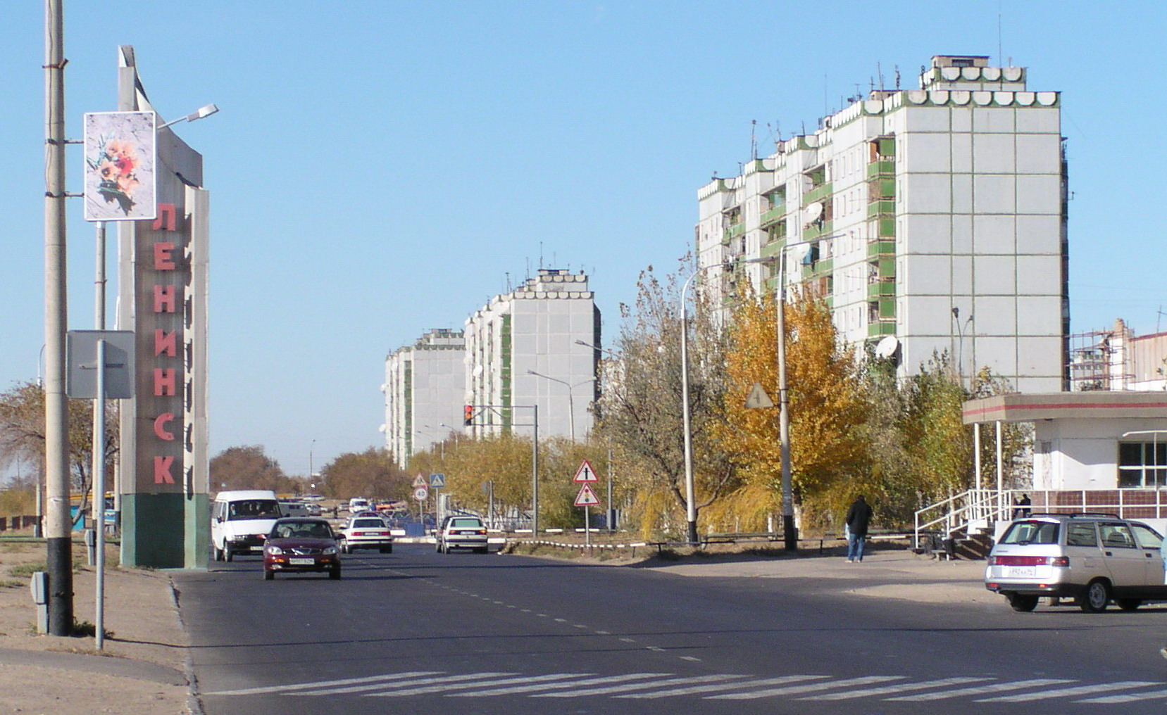 Baykonur city. View on Gagarin Avenue. Monument Leninsk reminding of the former name of the city.